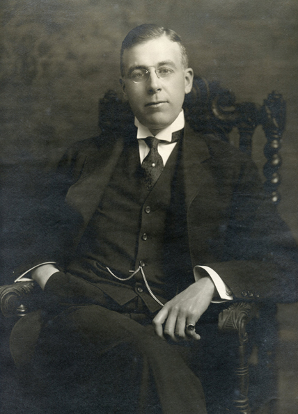 Portrait of Edward Stephen Harkness